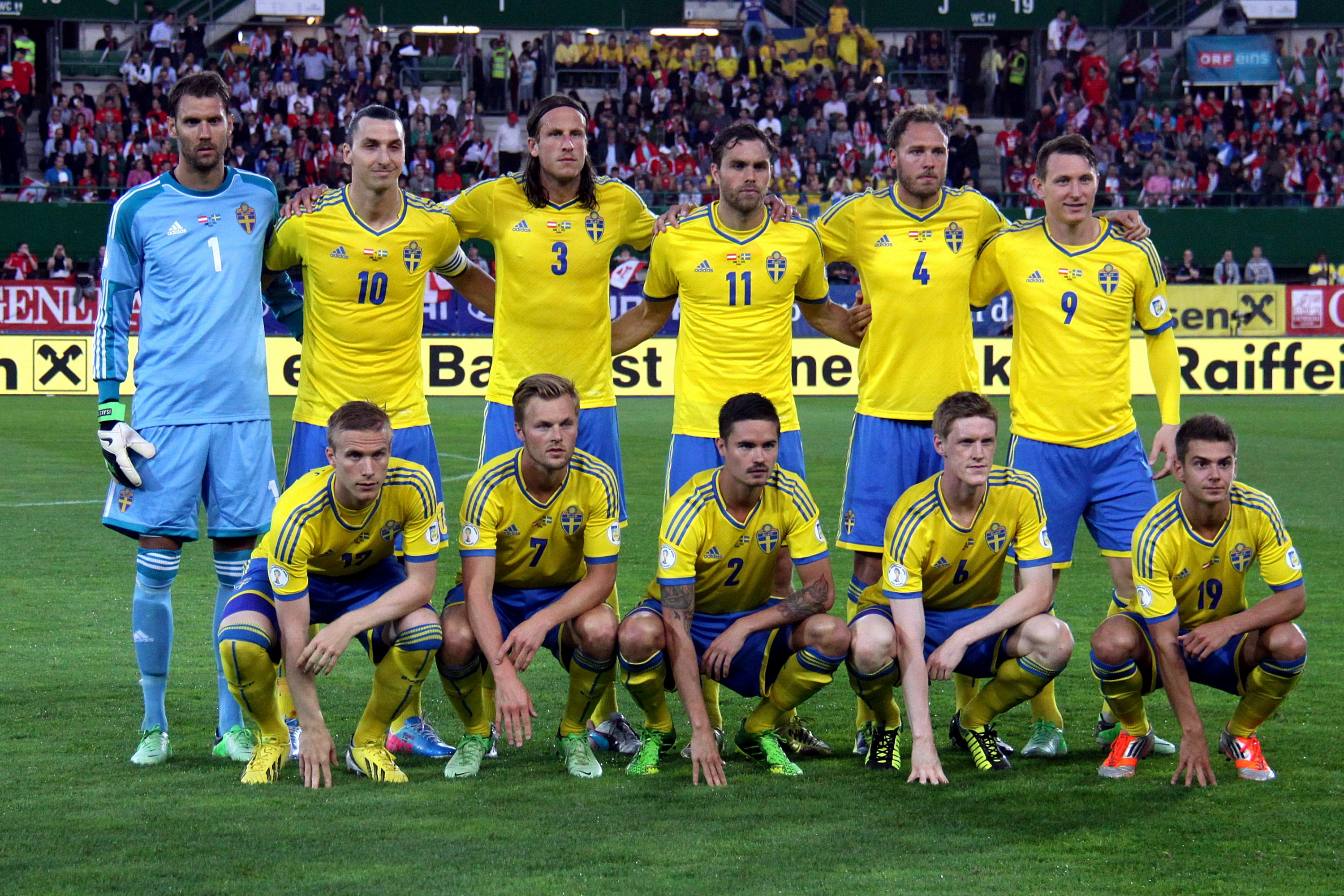 Austria vs Sweden at 2013-06-07 in Ernst-Happel-Stadion in Vienna (2:1). – The photo shows the Sweden national football team.